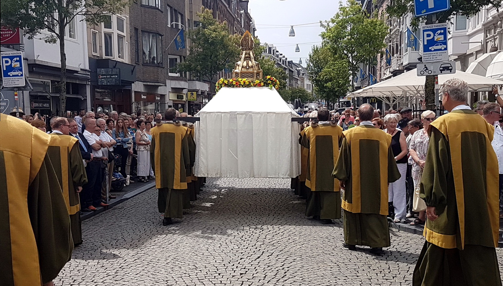 Participants in a historic religious procession during the 2018 Heiligdomsvaart (Relics Pilgrimage) in Maastricht, Netherlands. The history of this seven-yearly catholic pilgrimage goes back to the Middle Ages. The first 'modern' version took place in 1874. On both Sundays of the 10-day festival, a procession is held in which the main relics and other devotional objects are exhibited. This photo was taken in Wycker Brugstraat during the (first) procession on Sunday 27 May 2018. This particular group, the confraternity of Saint Lambertus, carries the relatively modern (1940) reliquary bust of Saint Lambert.